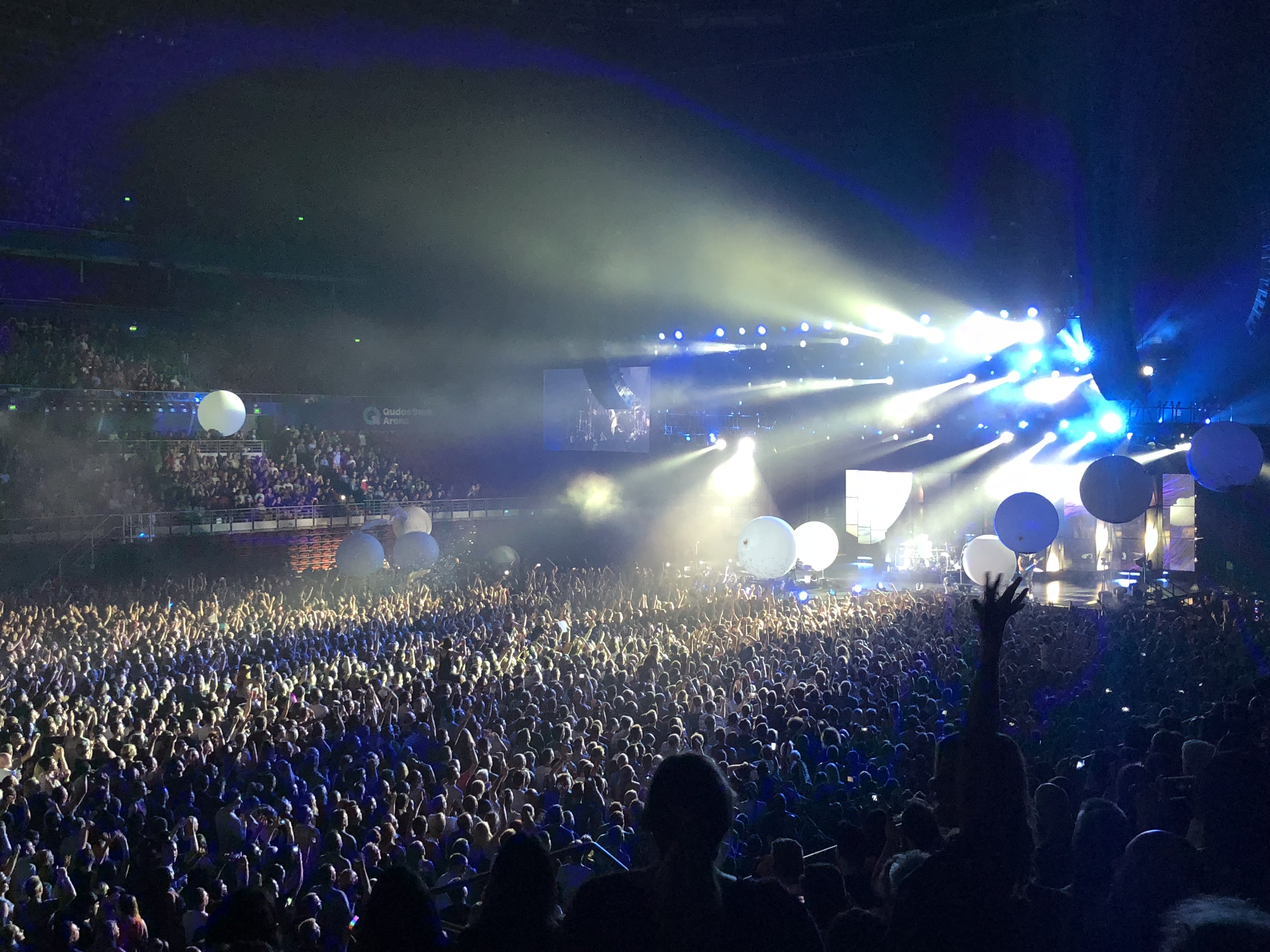 Qudos Bank Arena at full capacity during a concert for British band Muse in 2017.